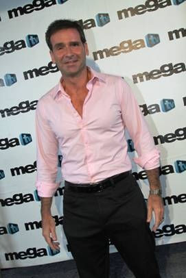 Paul Bouche arrives at the Blue Carpet for Mega TV Party August 2011